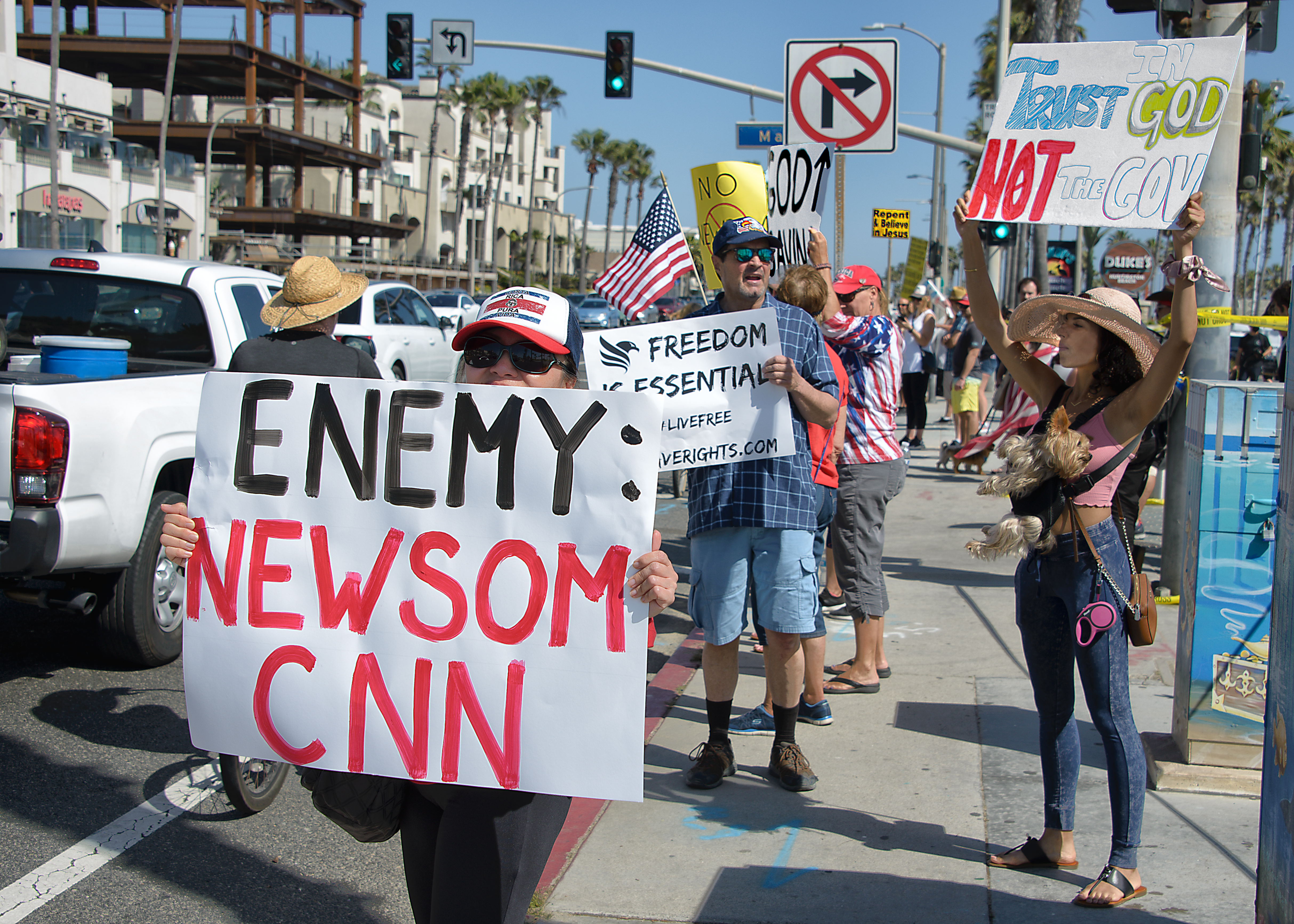 Protesters in Huntington Beach California demonstrate against the closing of all Orange County beaches by Gov. Gain Newsom.